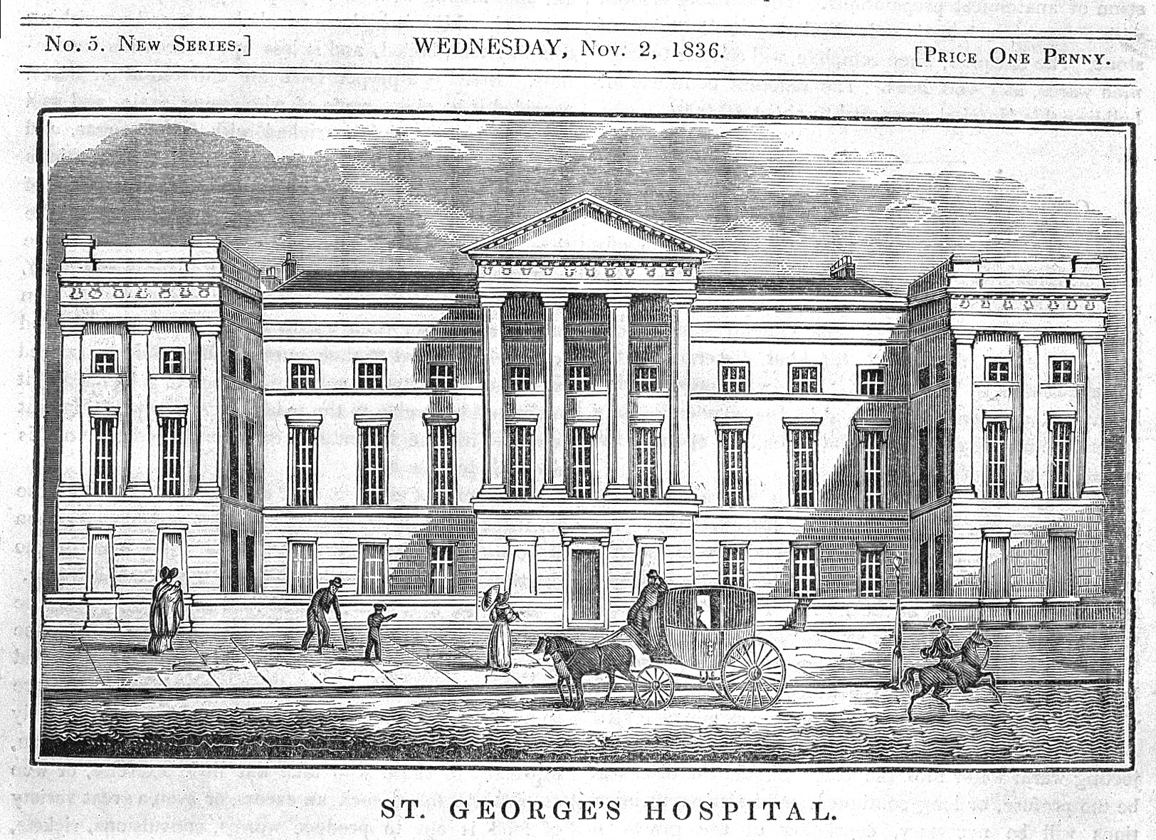 St. George's Hospital. London Rare Books Keywords: Institutions